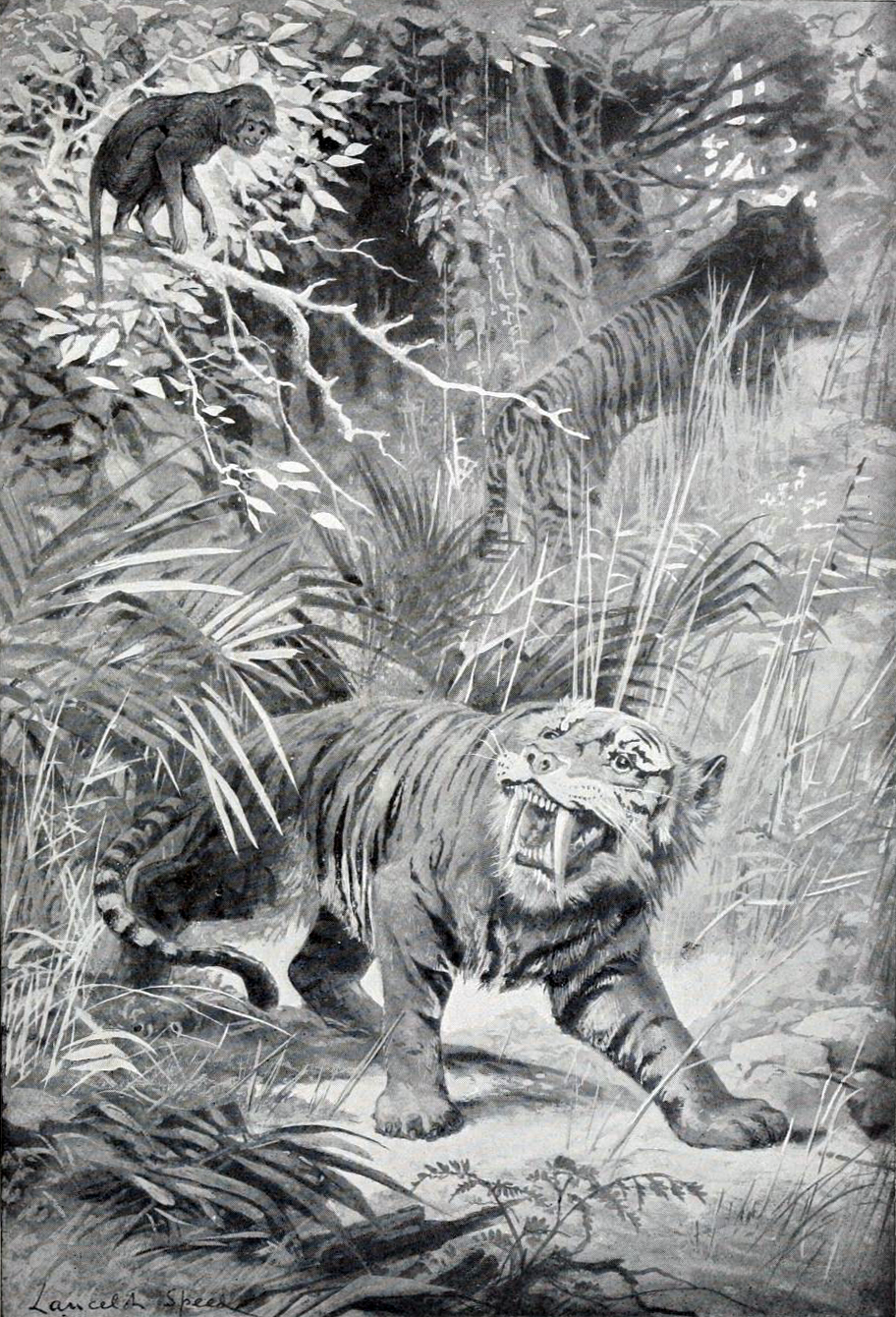 Machairodus published in from Nebula to Man, 1905 England.